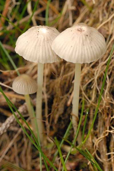 Mycena epipterygia from Commanster, Belgian High Ardennes. The determination of the species shown in this picture has been verified.